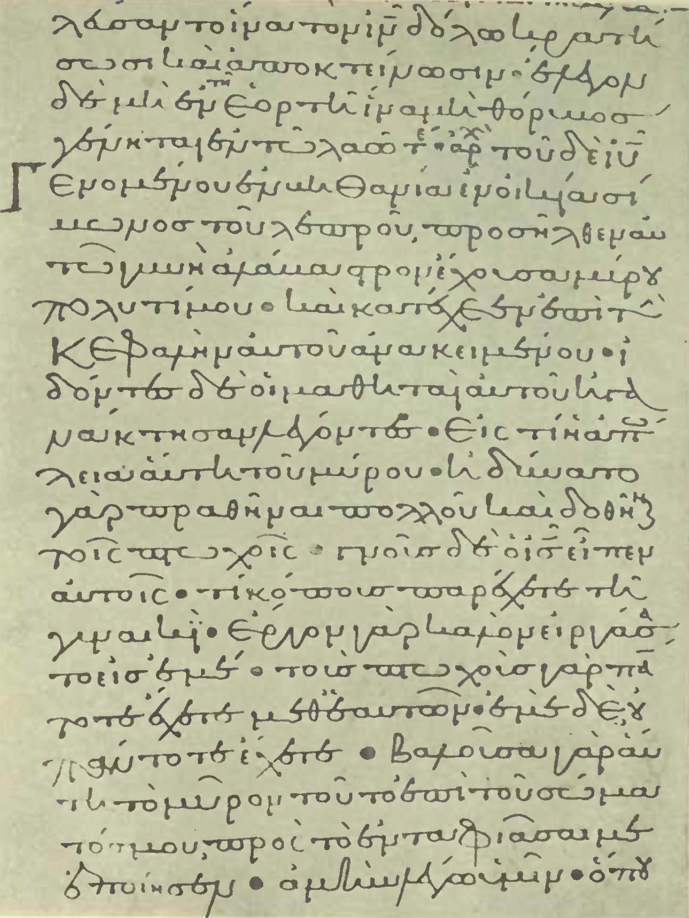 page from the codex in Thompson facsimile edition (Edward Maunde Thompson, An Introduction to Greek and Latin Paleography, p. 248 (plate 68))